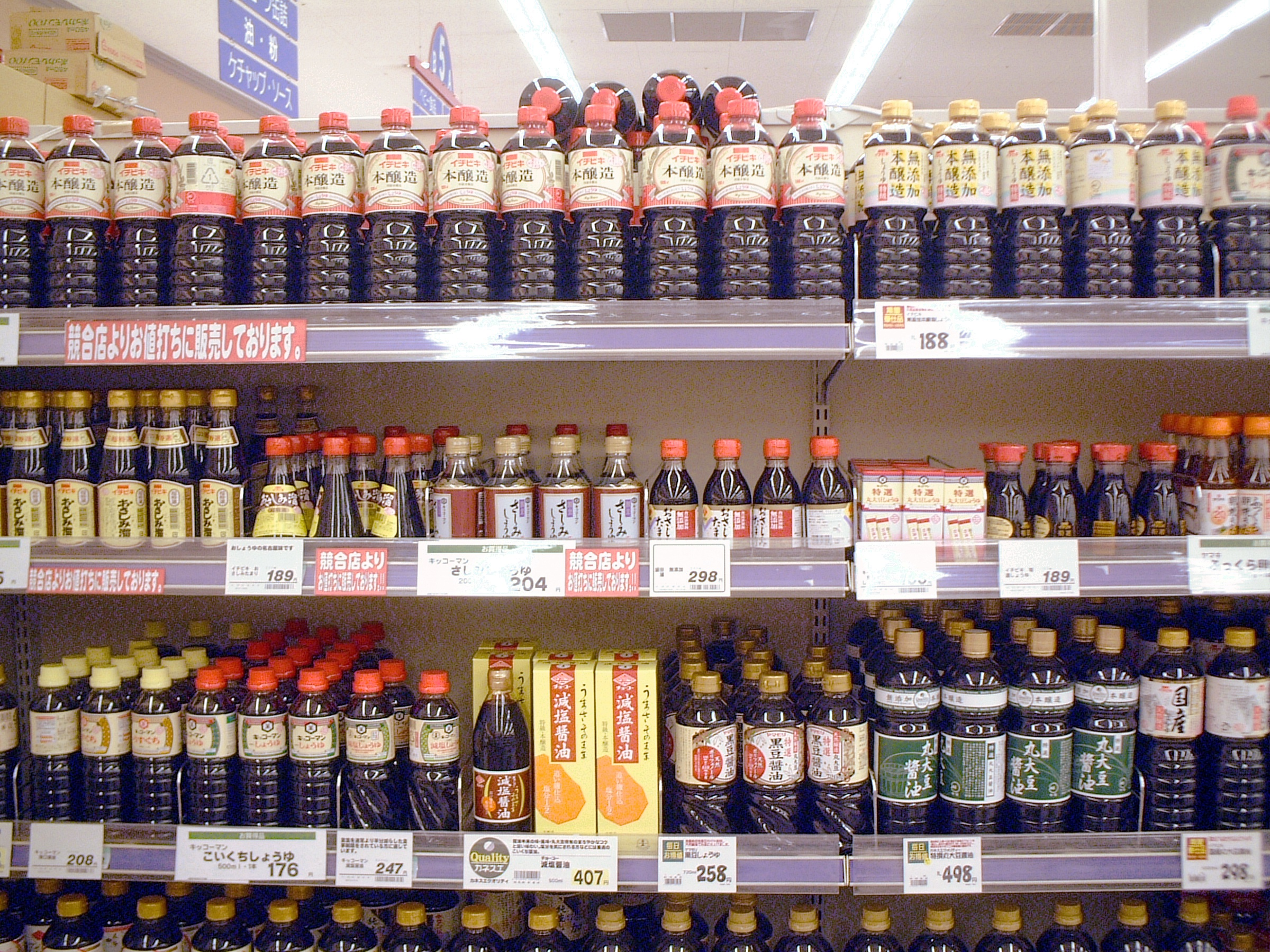 Soy sauce aisle in a Japanese supermarket.